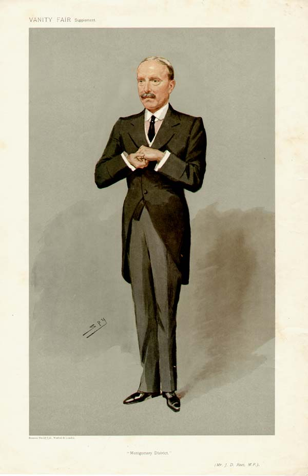 Caricature of Mr JD Rees MP. Caption read "Montgomery District".